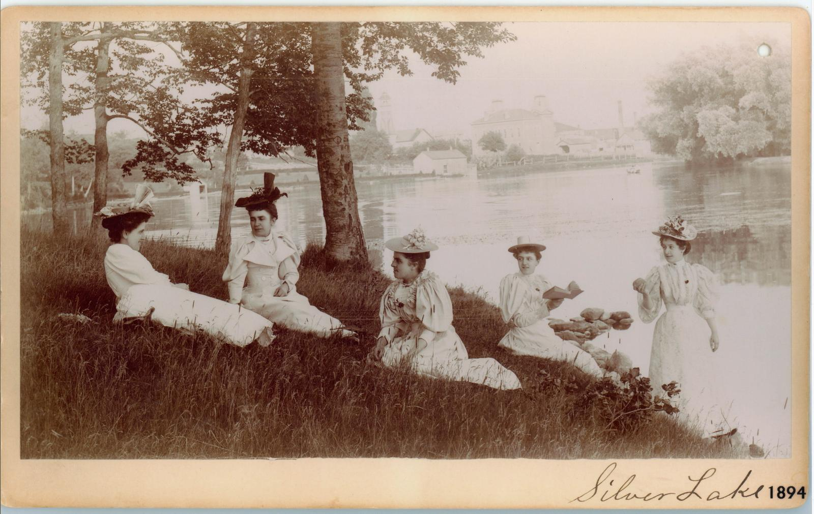 Photo of five women sitting on the shore of Silver Lake, in West Side Park (later Waterloo Park). Note the women's hats and the woman reading. In the background, the original Waterloo Town Hall, the Fire Hall and part of Seagram's Distillery can be seen.